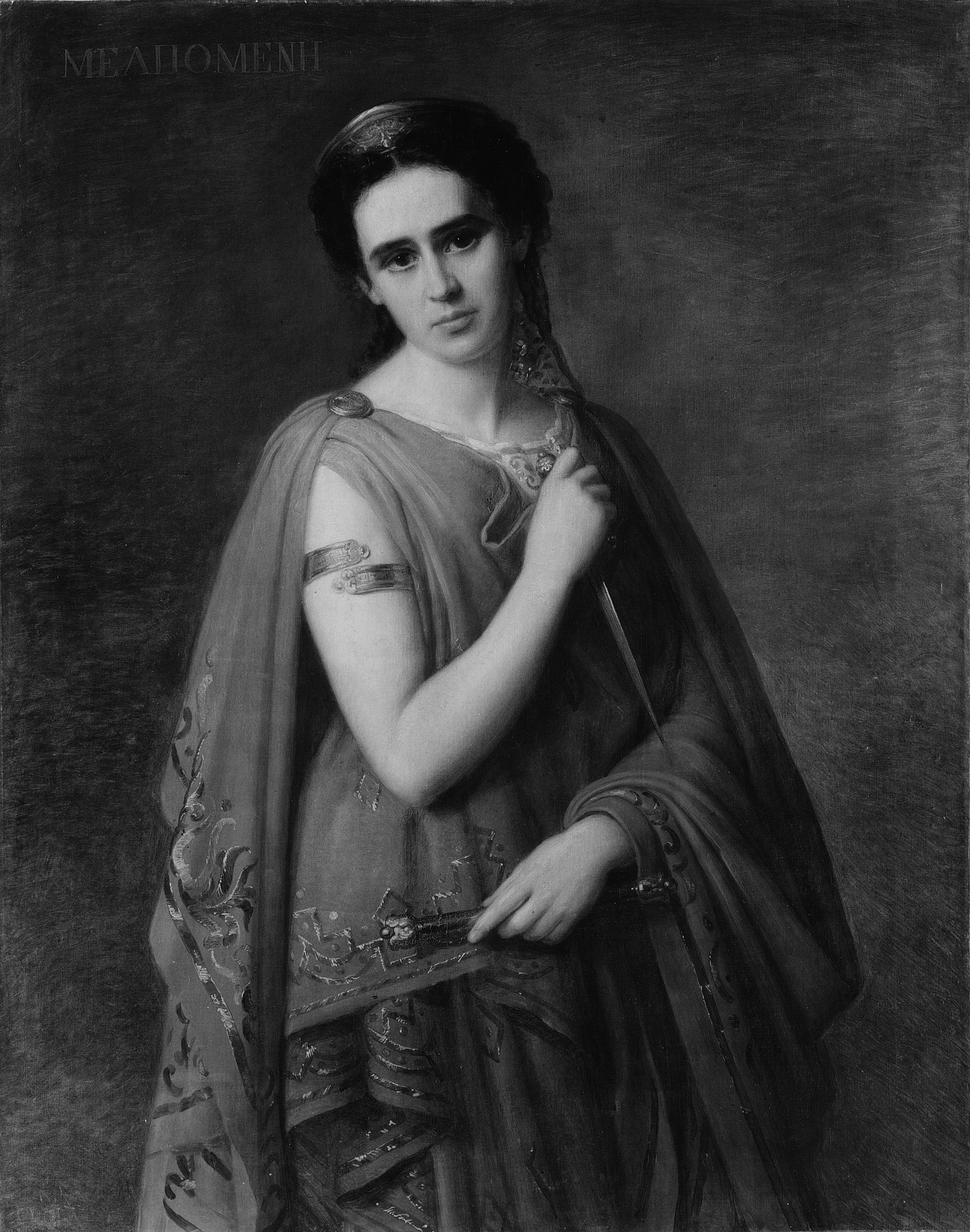 Melpomene Artist: Joseph Fagnani (1819–1873) Date: 1869 Medium: Oil on canvas Dimensions: 43 1/2 x 33 1/2 in. (110.5 x 83.8 cm) Classification: Paintings Credit Line: Gift of an Association of Ladies and Gentlemen, 1874